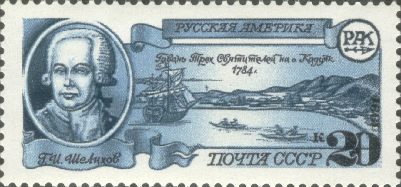 Stamp of the Soviet Union, Russian seafarer and merchant Grigory Shelekhov, 1991, CPA #6302.